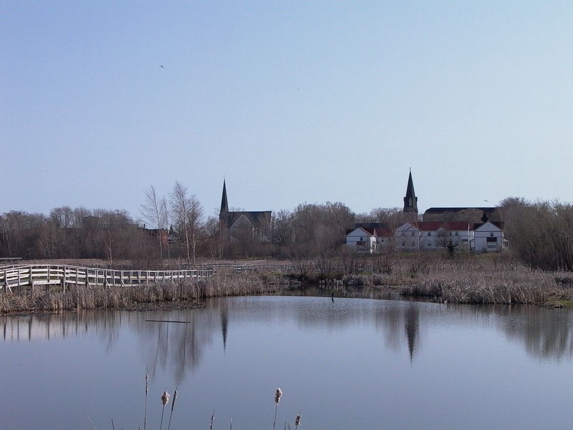 The Wild Fowl Park, Sackville, New Brunswick, Canada